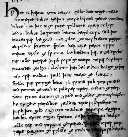 One of the oldest Old English poems, by an anonymous poet.